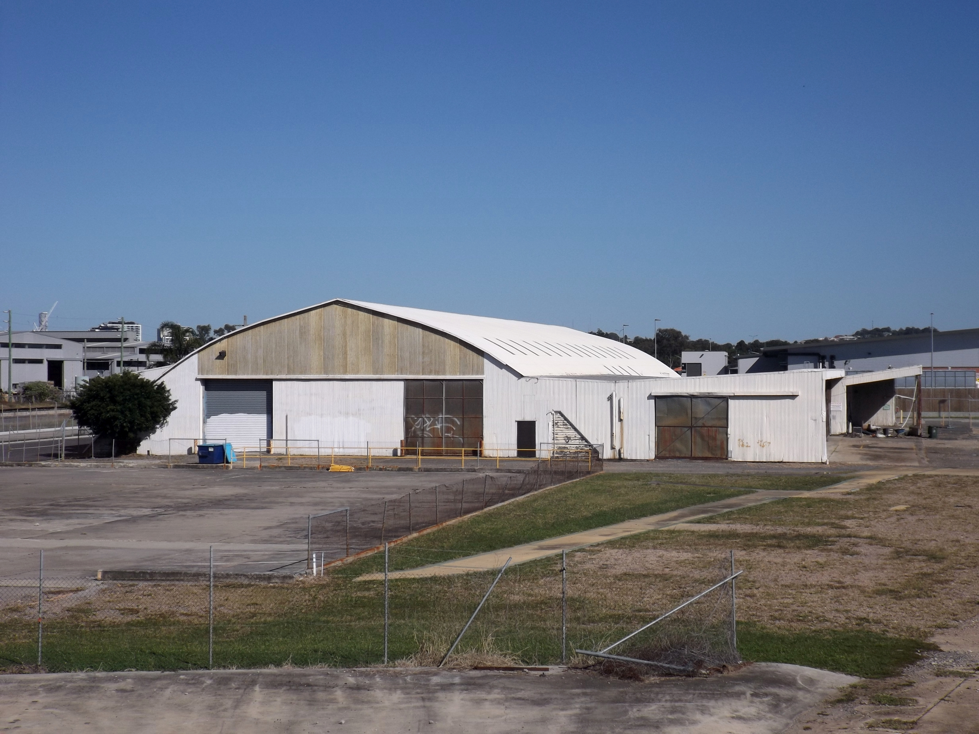 Photo of Second World War Hangar No. 7 at Eagle Farm, Brisbane, Queensland, Australia.